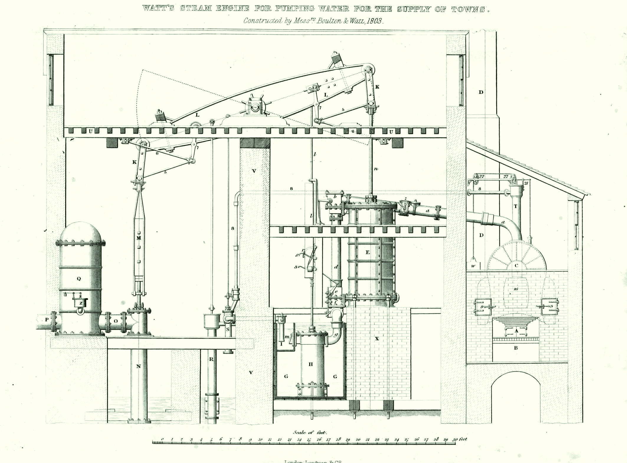 A Treatise on the Steam Engine, 1827, Plate 23